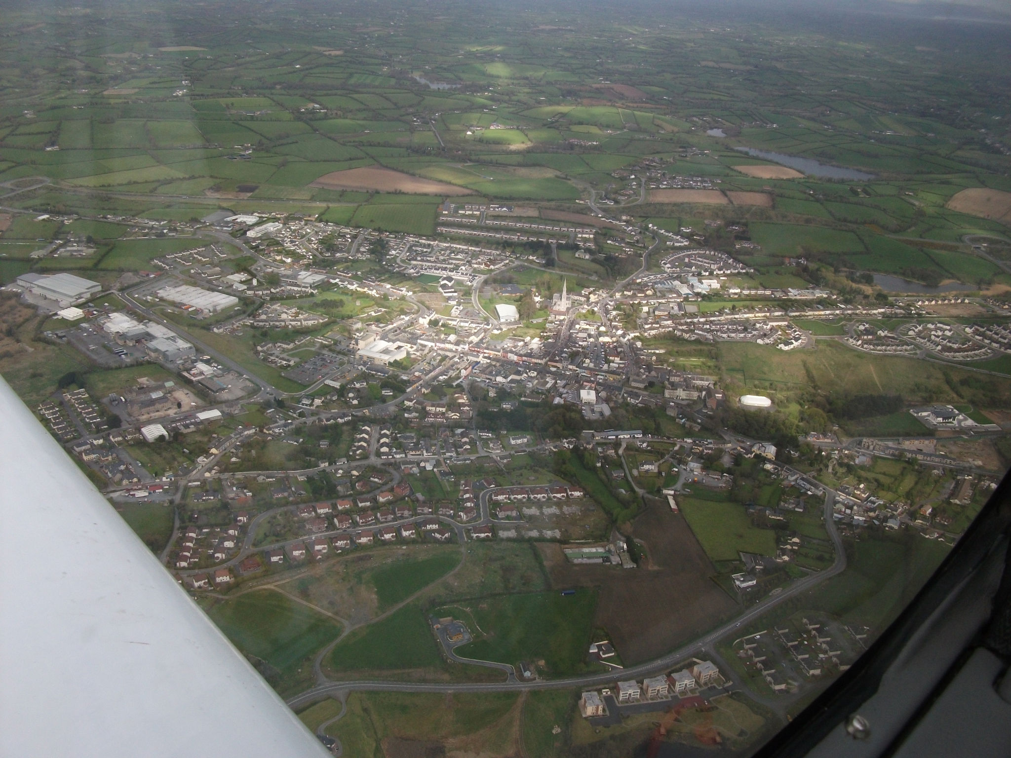 Aerial photo of Carrickmacross taken 12th April 2012